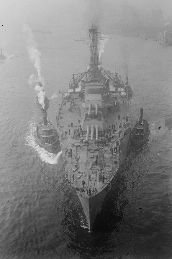 USS Nevada (BB-36) being escorted by several tugs downriver (location unknown).